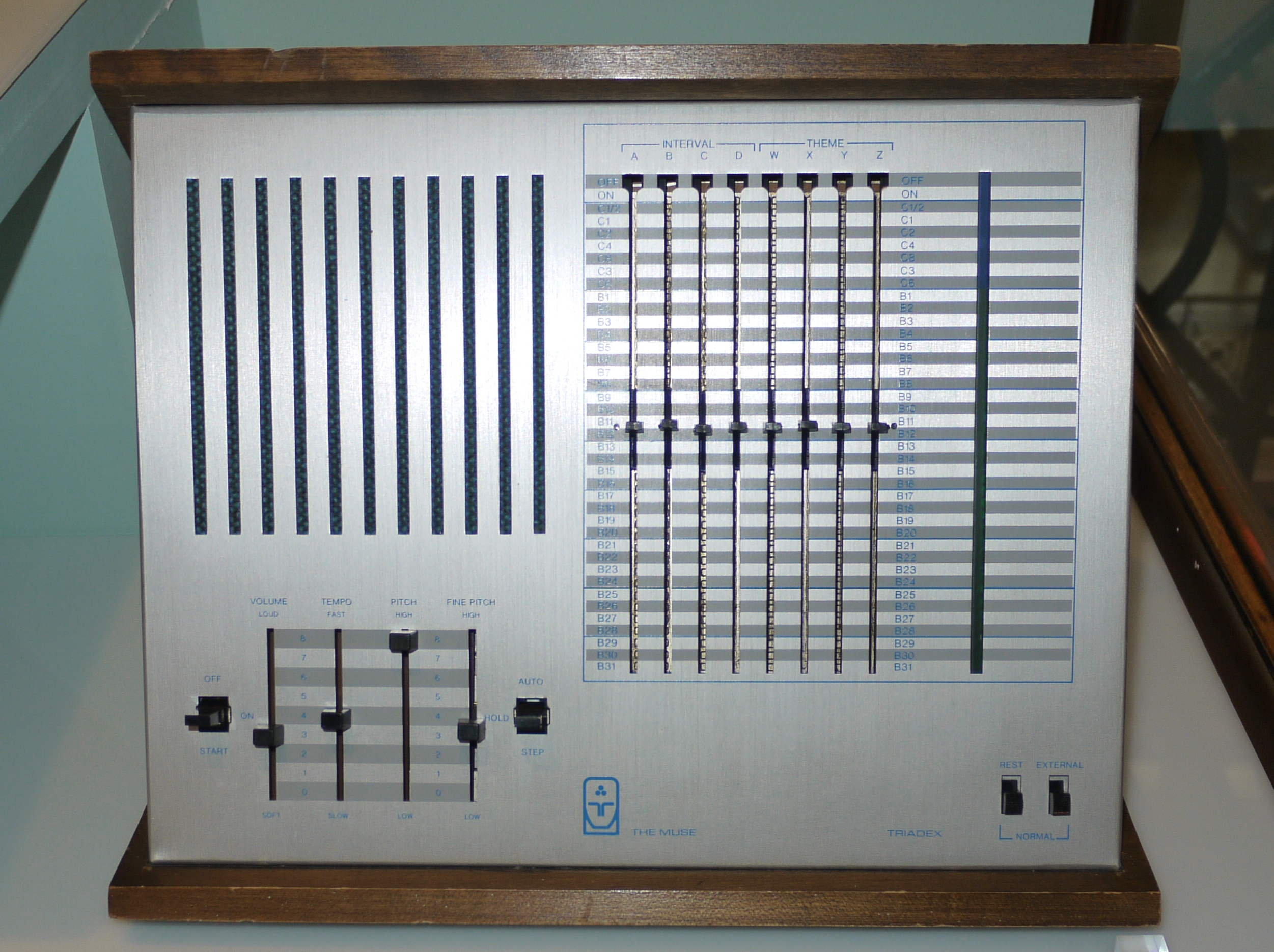 Photo of a Triadex Muse in the London science museum